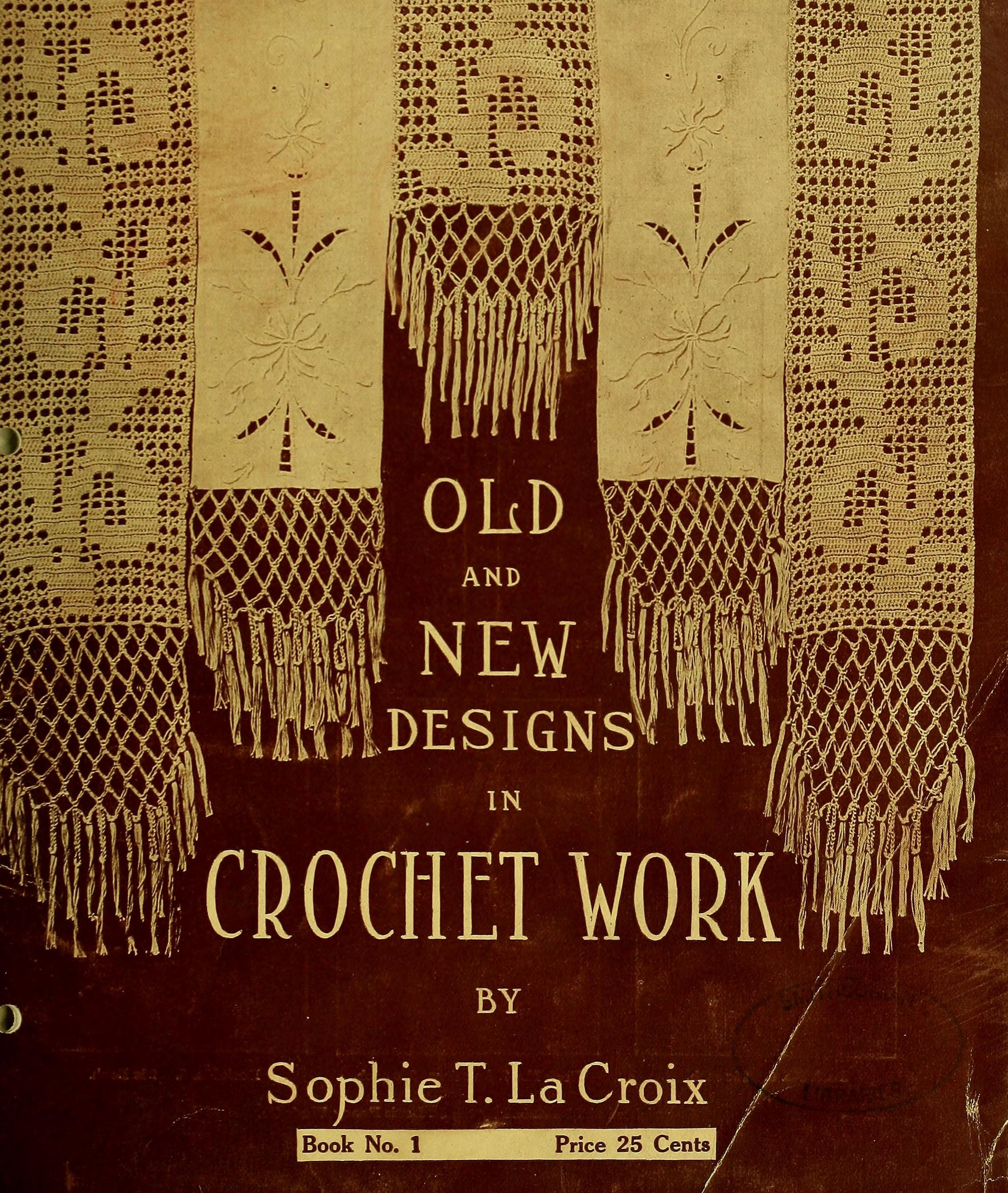 Crop of cover of Old and New Designs in Crochet Work by Sophie Tatum LaCroix, published by the St. Louis Fancywork Co., in St. Louis, Missouri, in 1914). The book is on the Internet Archive